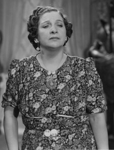 Leonor Rinaldi- actriz argentina